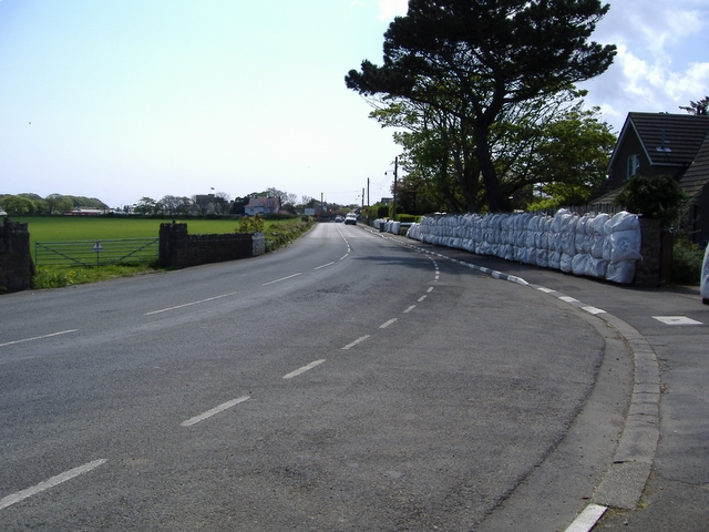 Stadium Corner on the A 3 road. Alongside the entrance to Castletown football club. Part of the Billown road circuit. Follow the circuit.